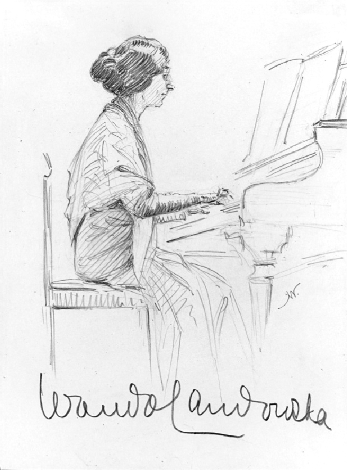 Wanda Landowska playing Bach in Brussels pencil on paper 22 x 17 cm 1930s signed c.r.: HW signed by performer: Wanda Landowska